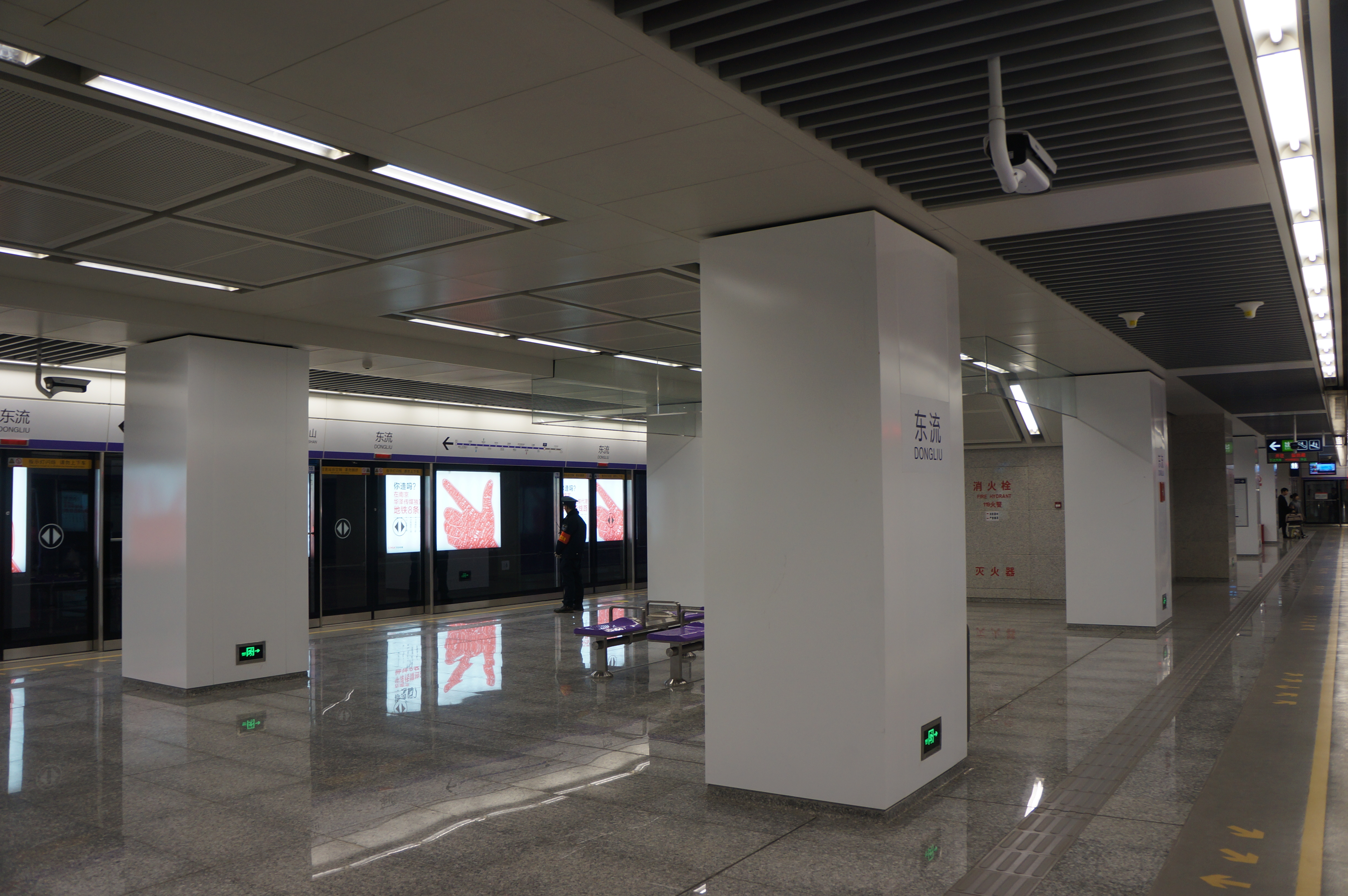 201704 Dongliu Station. Terminal station for NJM L4 Interval Trains.